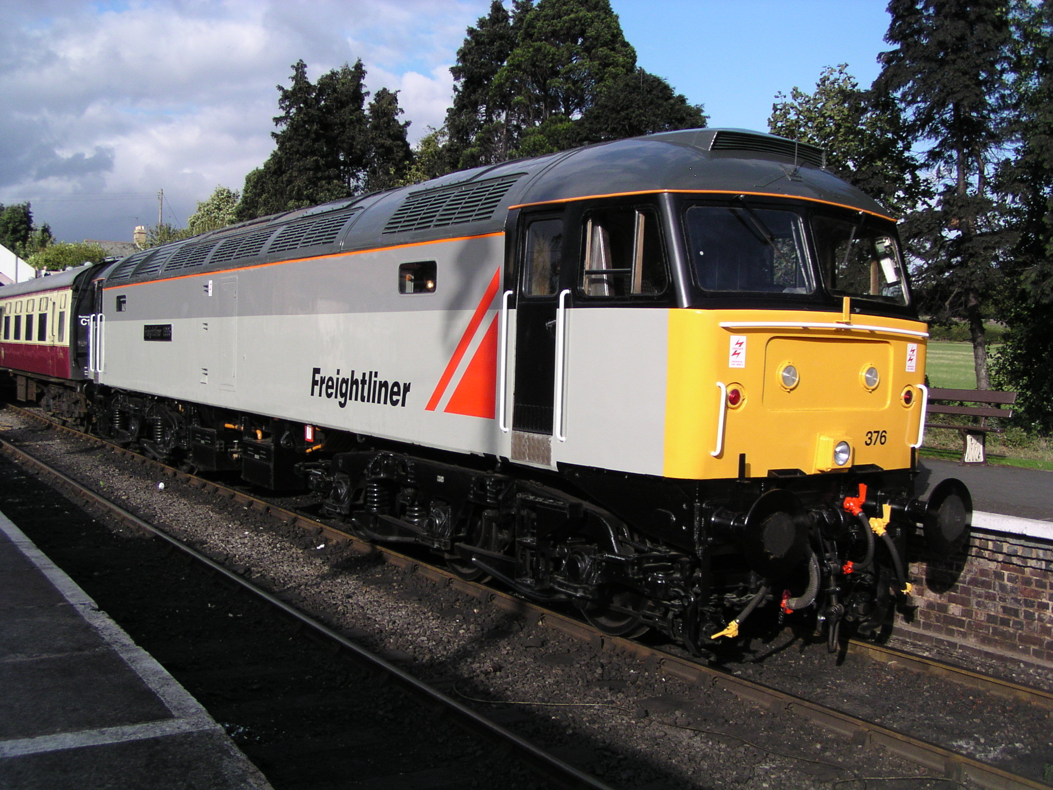 Preserved British Rail Class 47, no. 47376 "Freightliner 1995" at Toddington station on the Gloucestershire Warwickshire Railway.